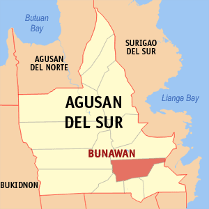 Map of the Agusan del Sur showing the location of Bunawan